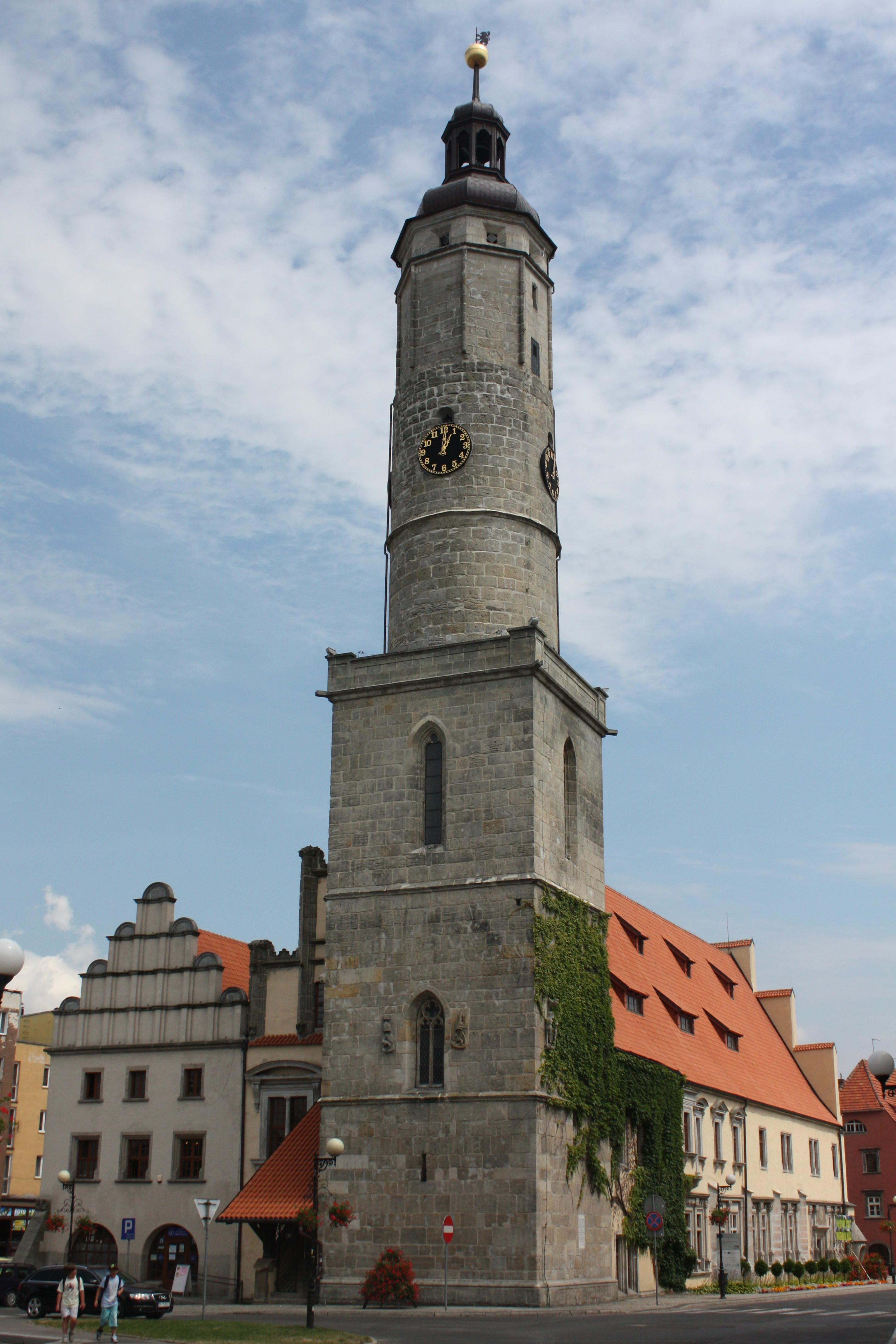 This photo of Lower Silesian Voivodeship was taken during Wikiexpedition 2013 set up by Wikimedia Polska Association. You can see all photographs in category Wikiekspedycja 2013. English | Polski | +/−